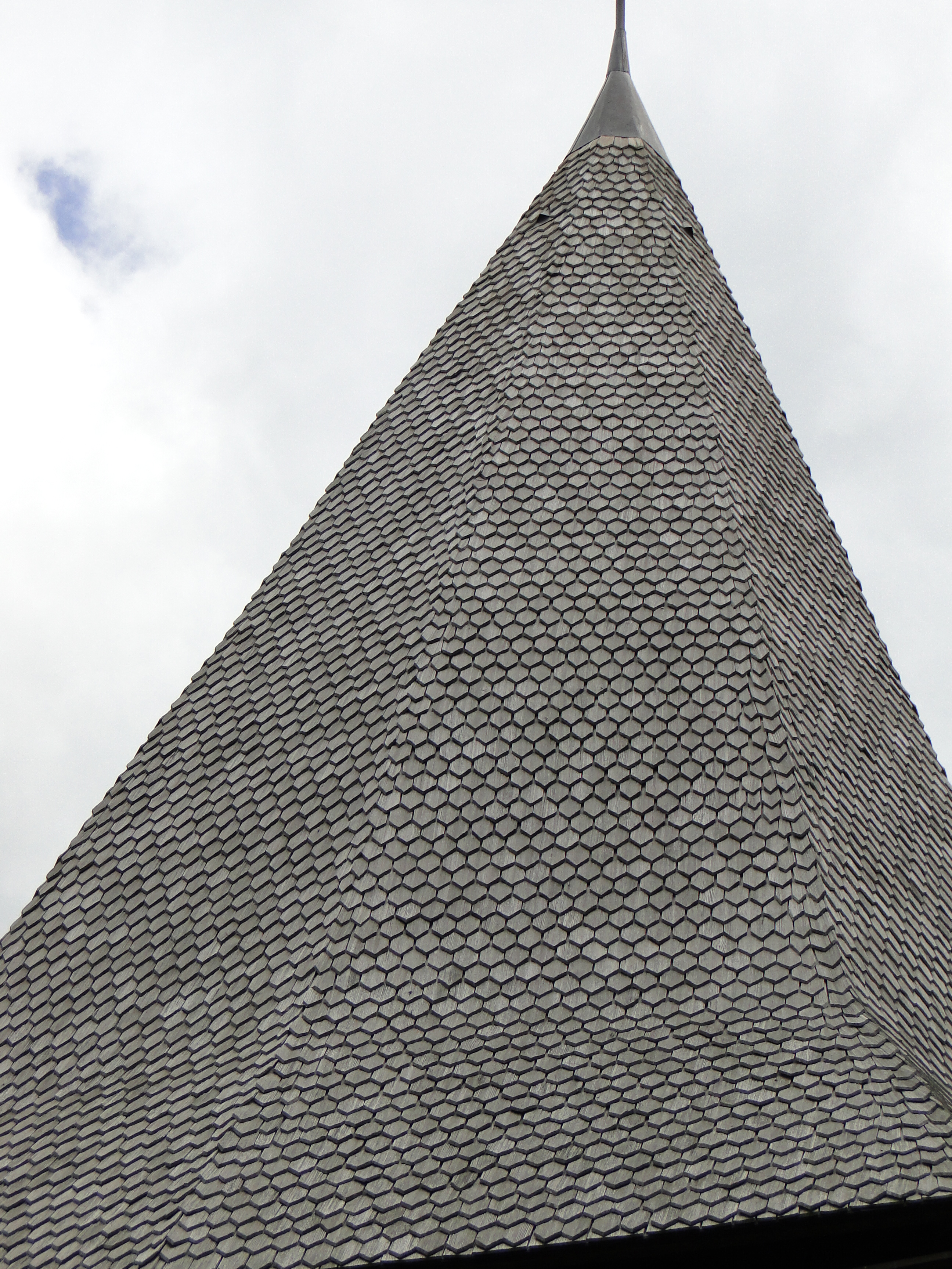 Church in Techentin, district Ludwigslust-Parchim, Mecklenburg-Vorpommern, Germany